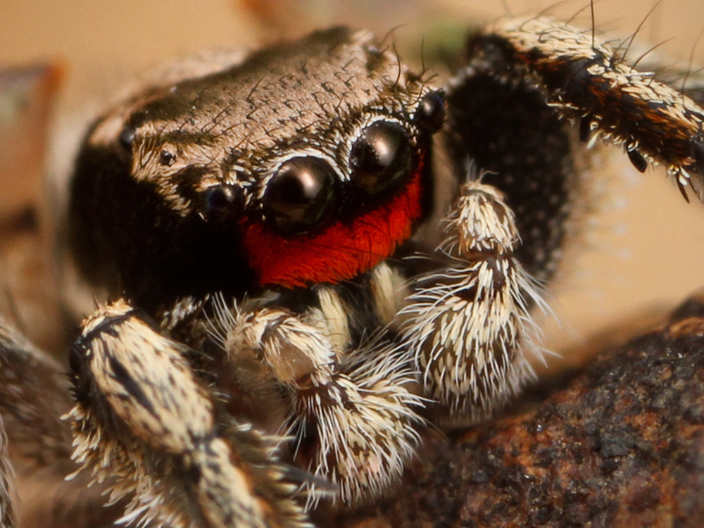 Adult male Habronattus coecatus jumping spider from Columbia, Missouri